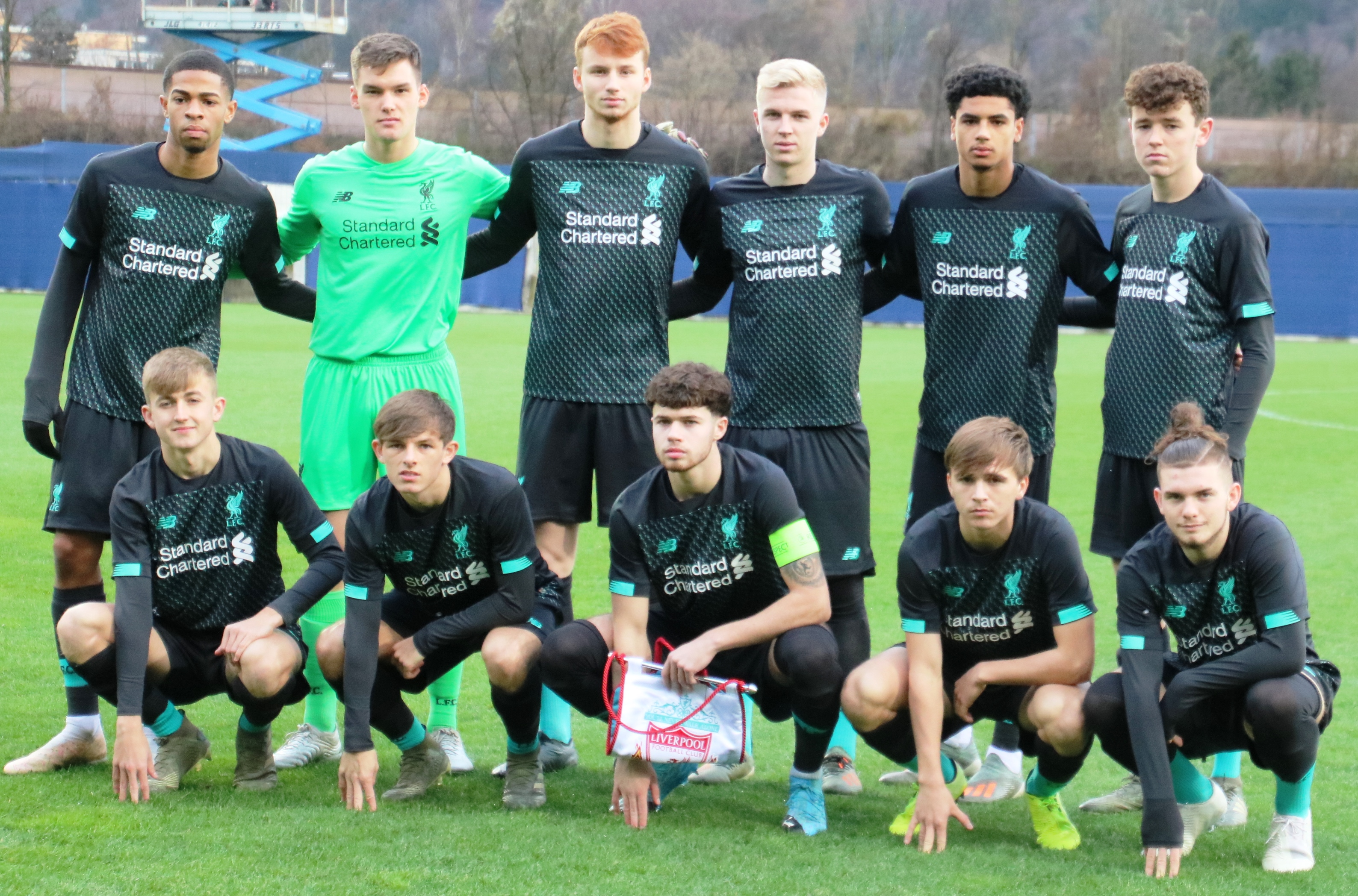 Top row: Elijah Dixon-Bonner, Winterbottom, Sepp Van Den Berg, Luis Longstaff, Ki-Jana Hoever, Thomas Hill Bottom row: Jack Cain, Leighton Clarkson, Neco Williams, James Norris, Harvey Elliott